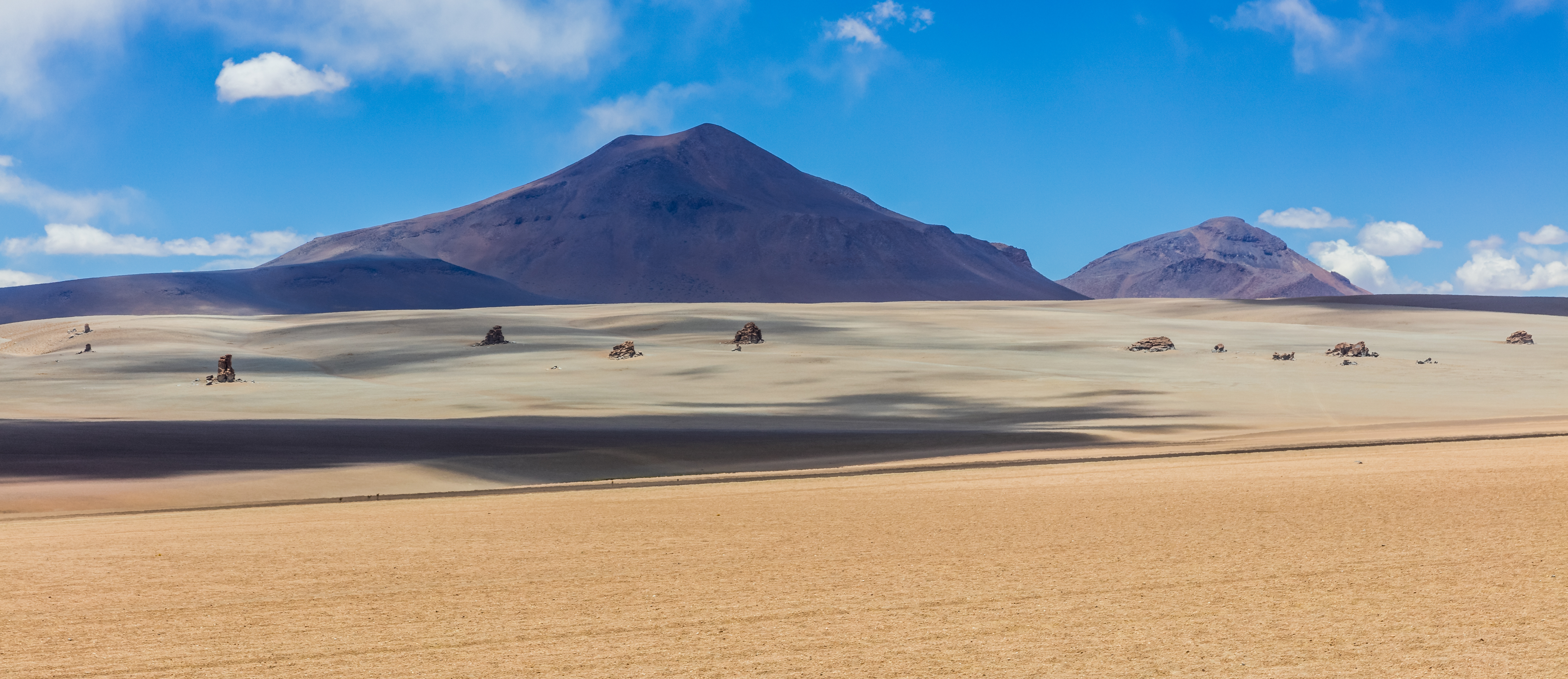 The Salvador Dalí Desert is located in the Eduardo Avaroa Andean Fauna National Reserve, Potosí Department, southwestern Bolivia. The place is called like this because similar landscapes have been painted by Salvador Dalí, although he was never there or knew about it.